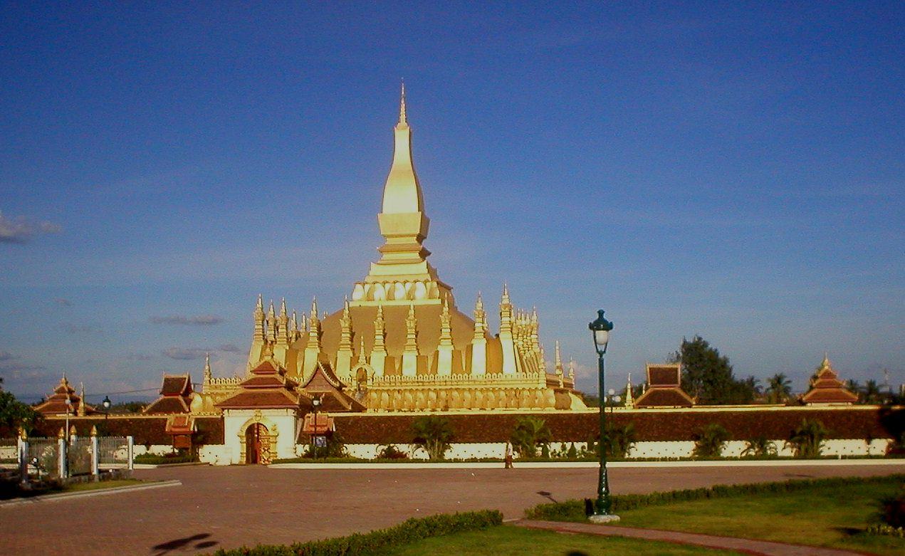 The stupa "That Louang' in Vientiane (Laos) National symbol of the country Myself-made picture Siren-Com 07:36, 7 November 2005 (UTC)